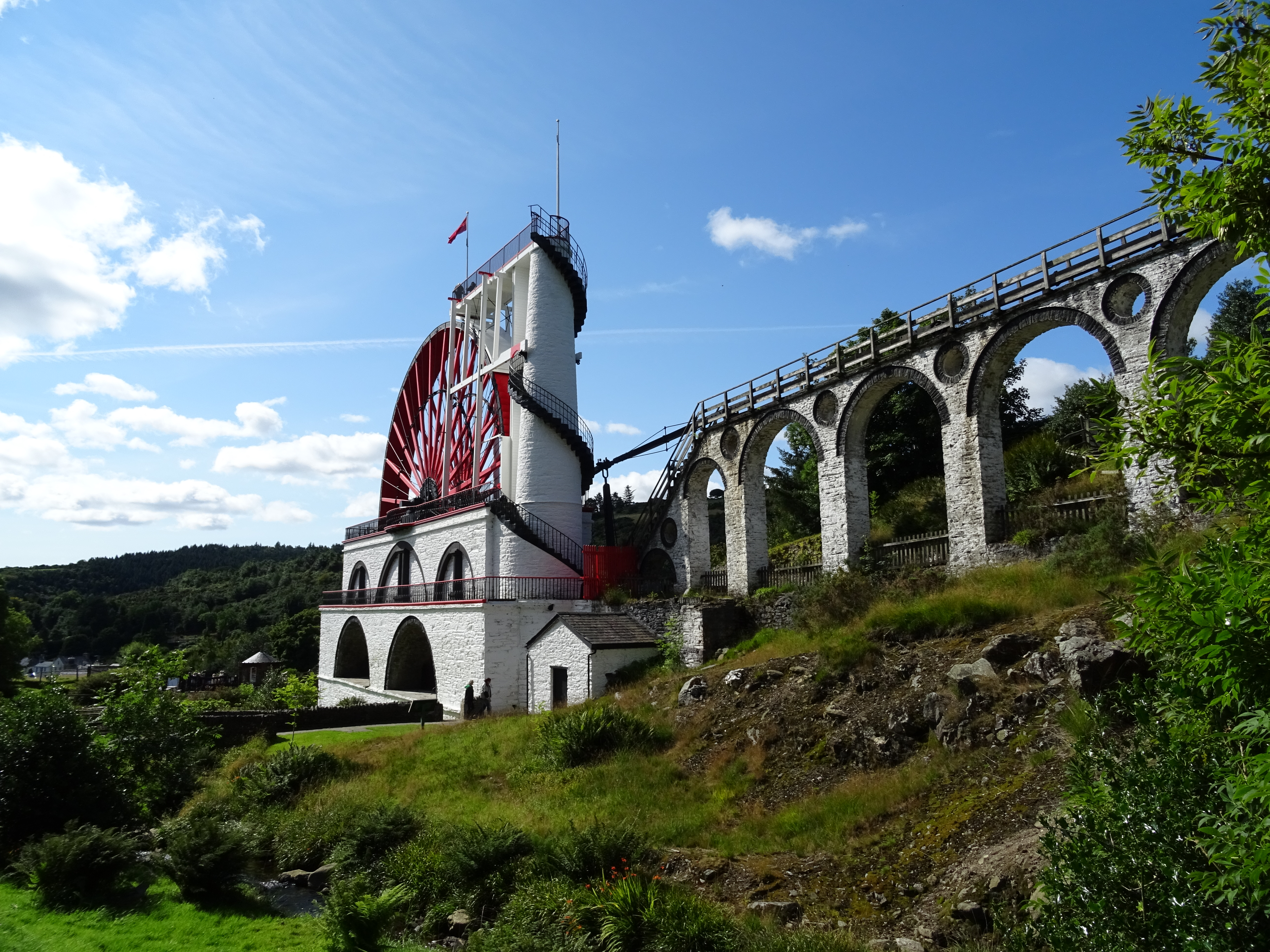 The rear of the Great Laxey Wheel (also known as Lady Isabella) in the village of Laxey, Isle of Man. Viewed in September 2015.